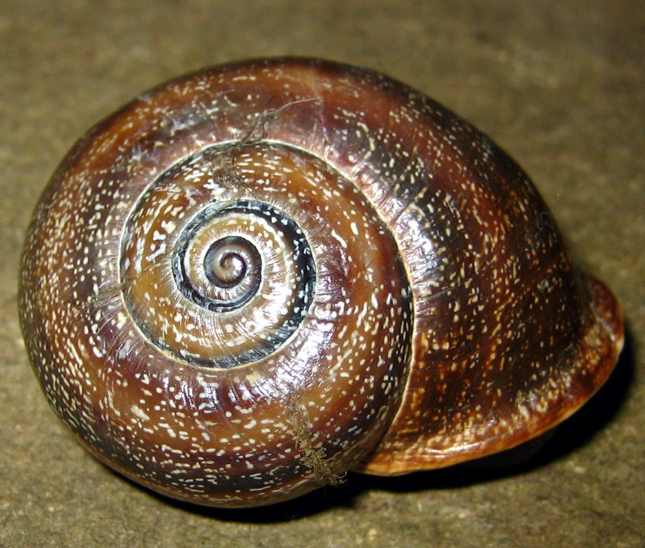 Otala punctata; Terrassa, Catalonia, Spain